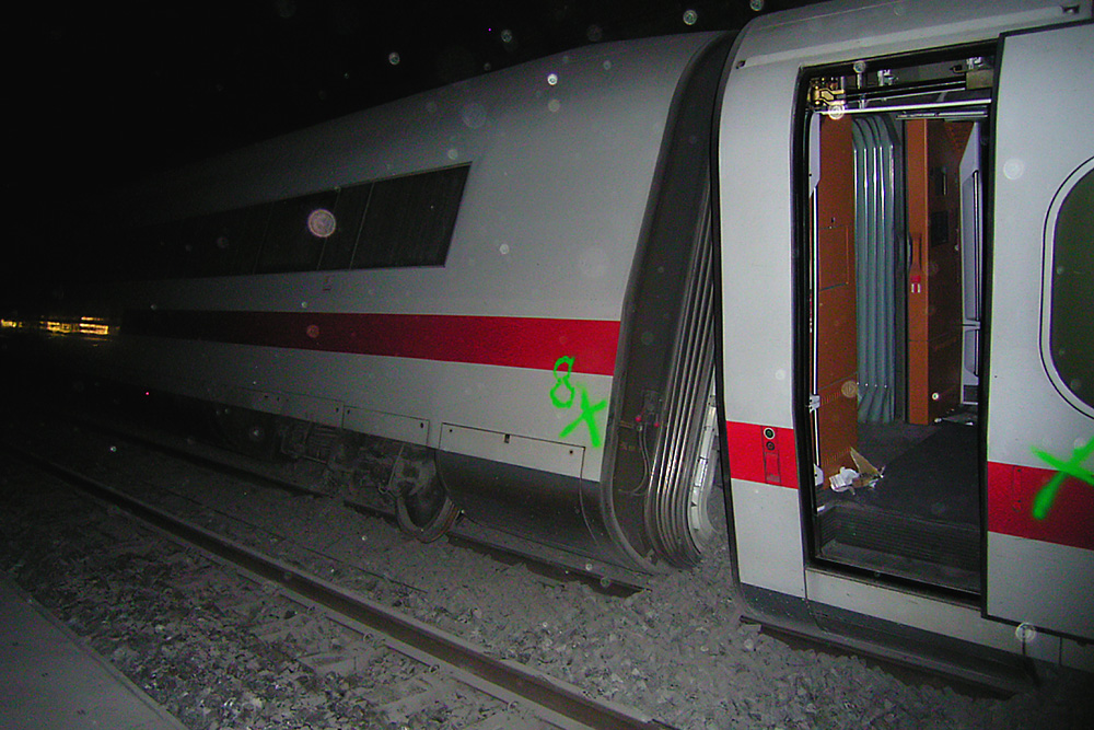 Two ICE 1 cars came to a full stop at the Landrücken Tunnel (near Fulda) after they had collided with a flock of sheep and derailed.